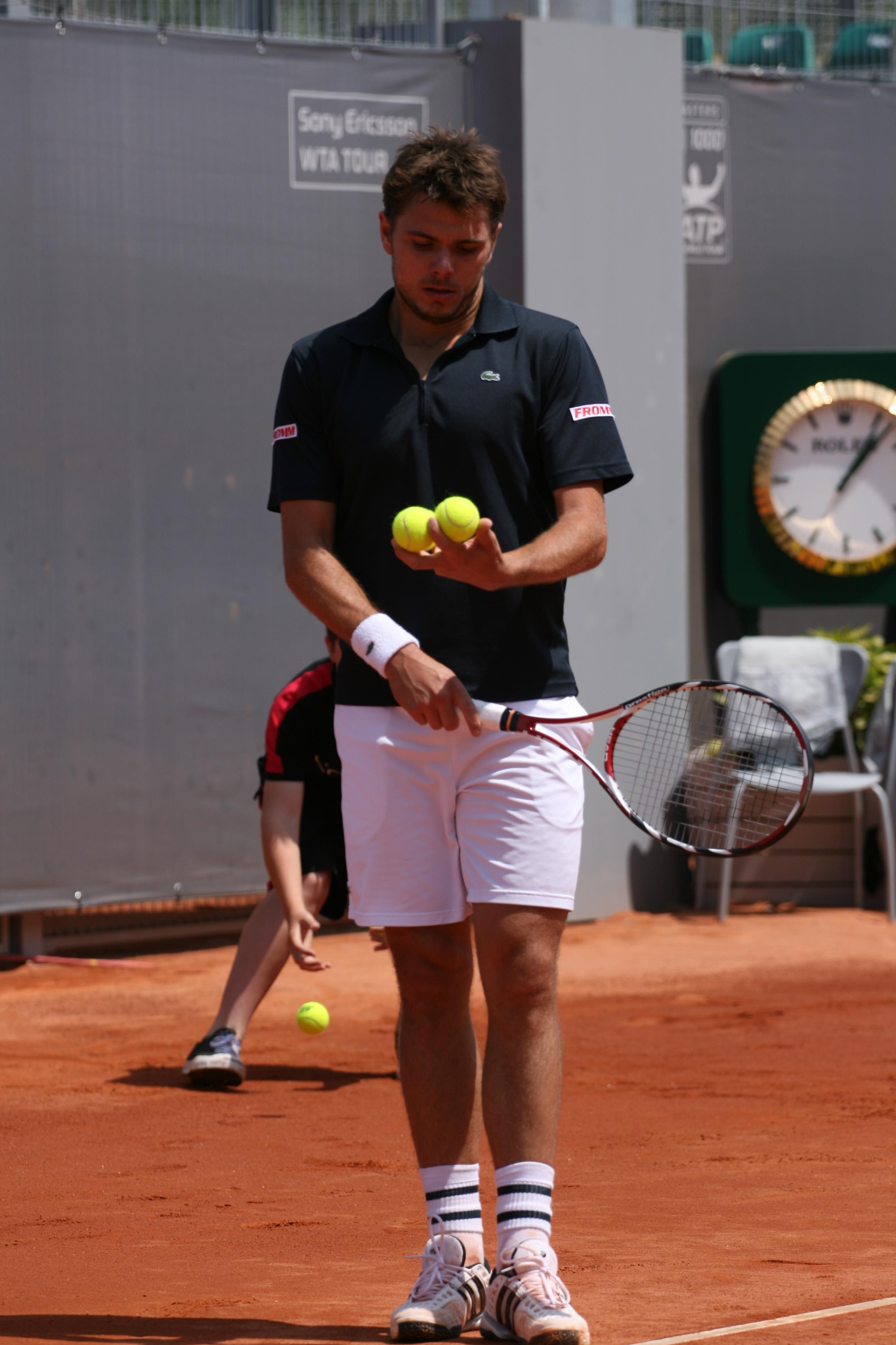 Stanislas Wawrinka against Jérémy Chardy in the 2009 Mutua Madrileña Madrid Open second round